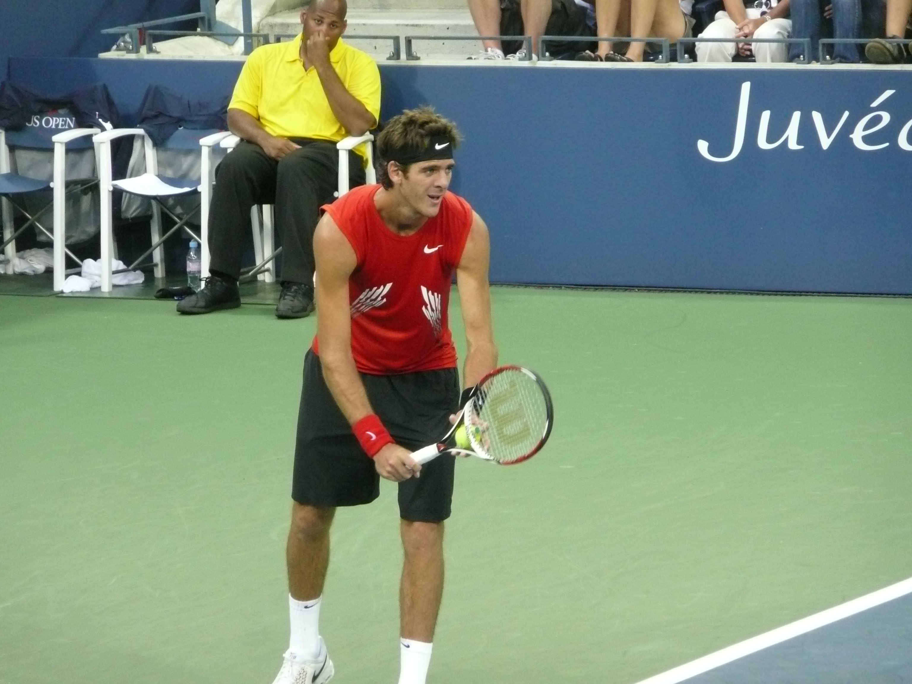 Juan Martin del Potro against Gilles Simon at the 2008 US Open